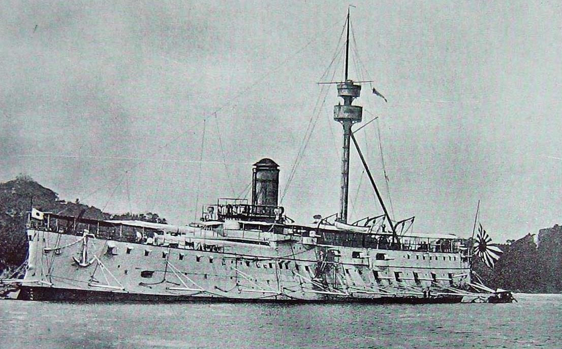 Picture of Japanese cruiser Itsukushima